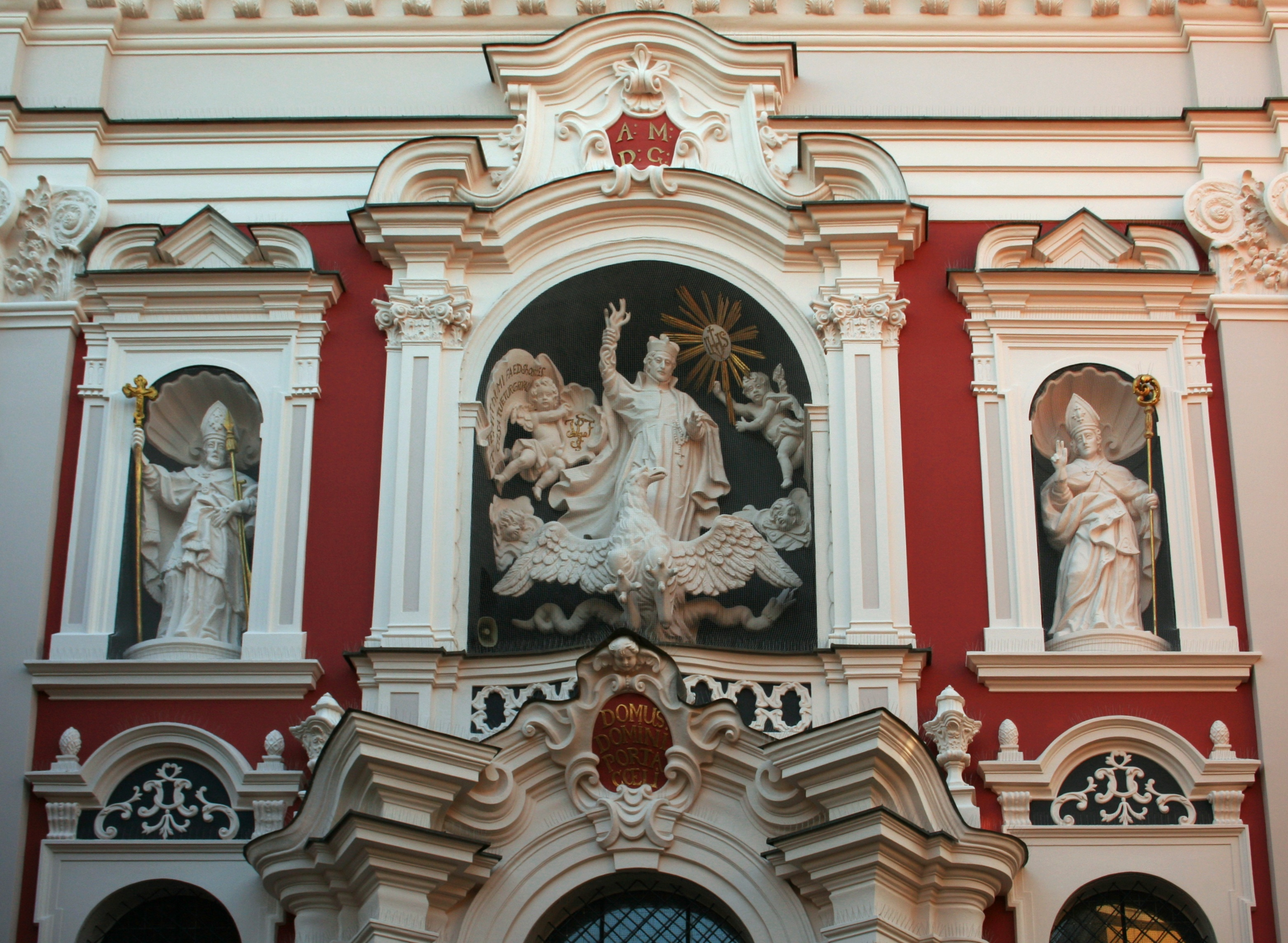 Poznań, St. Ignatius of Loyola